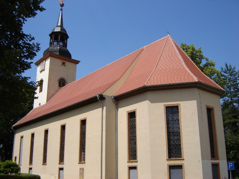 Protestant church of Parey, Saxony-Anhalt